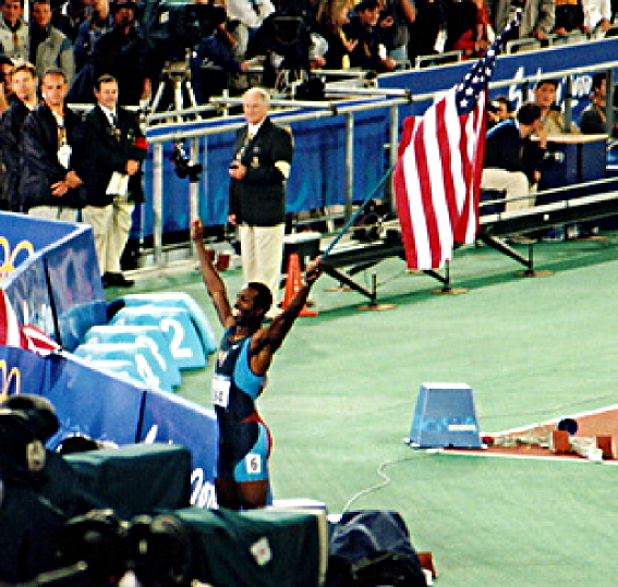 Michael Johnson Victory in Sydney 2000